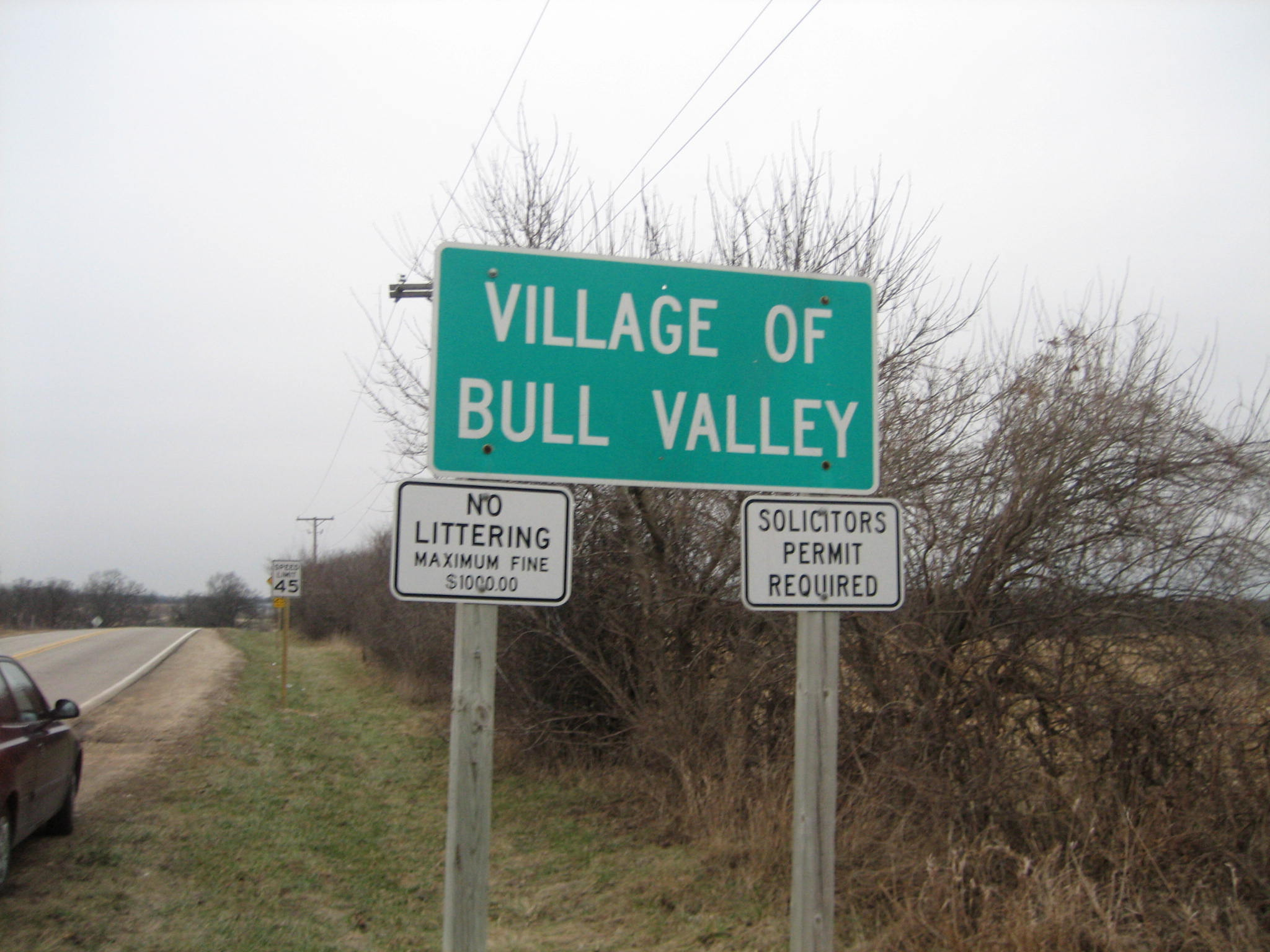 Signage marking village. Bull Valley, Illinois, National Register of Historic Places.